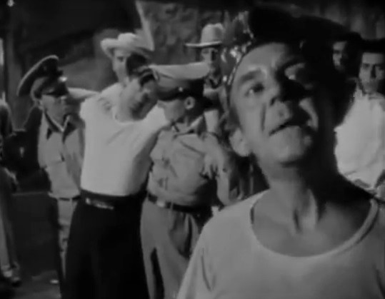 Gus Schilling in The Lady from Shanghai - trailer (cropped screenshot)